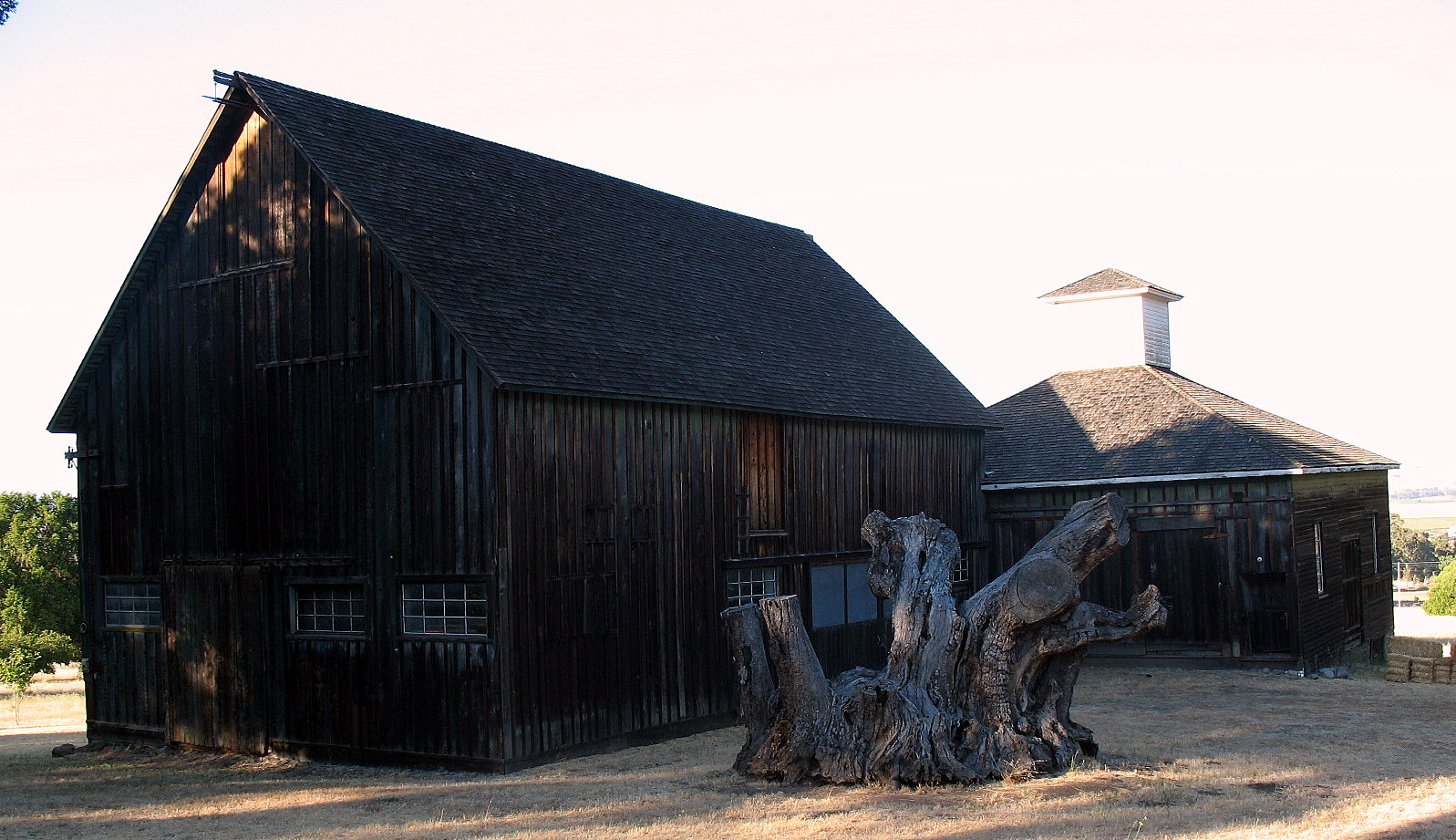 Rancho Olompali Barns, Olompali State Historic Park, Novato, California.